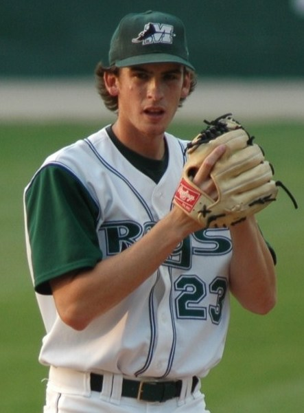 James Houser in 2005.